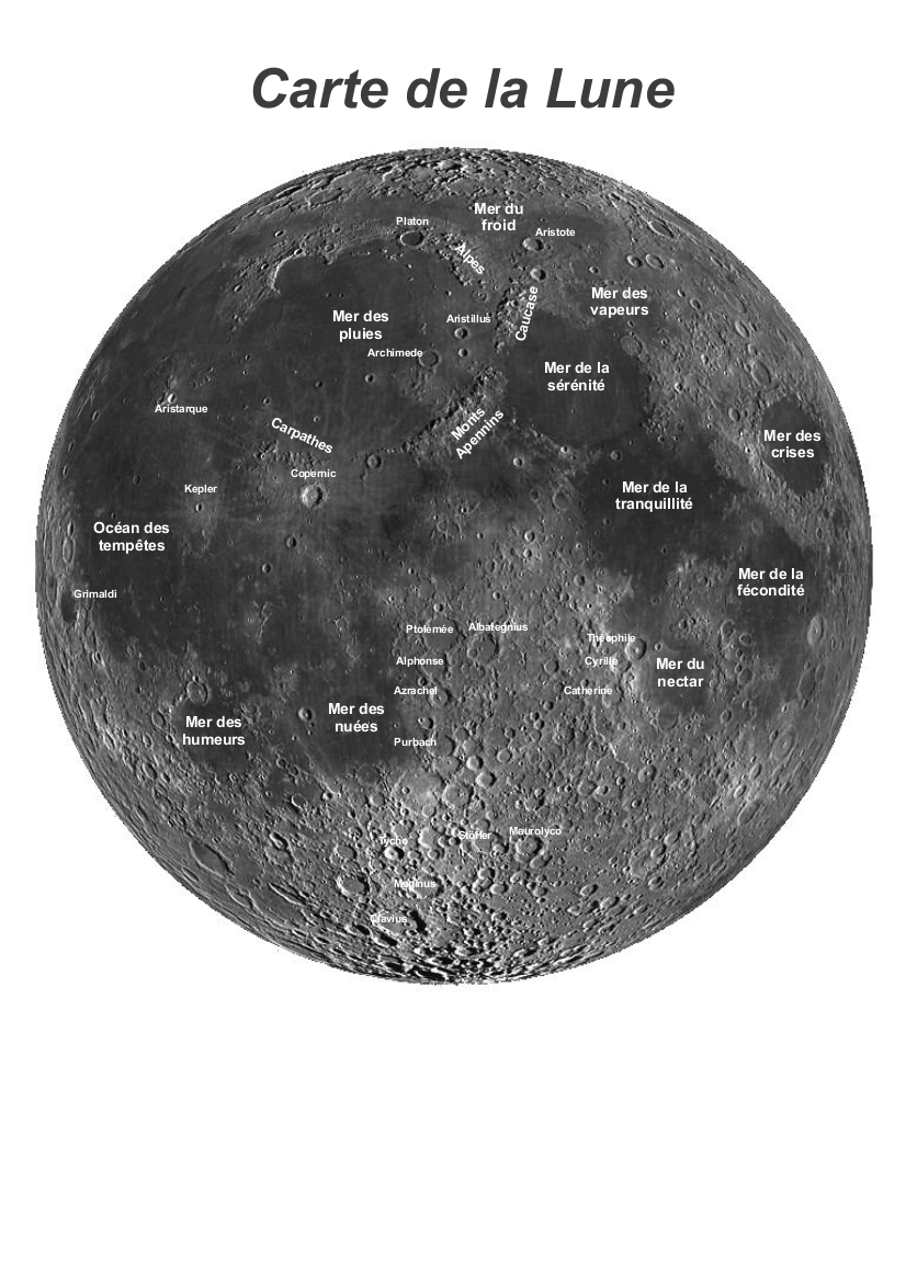 Simple map of the moon, with french names of the main craters and maria.